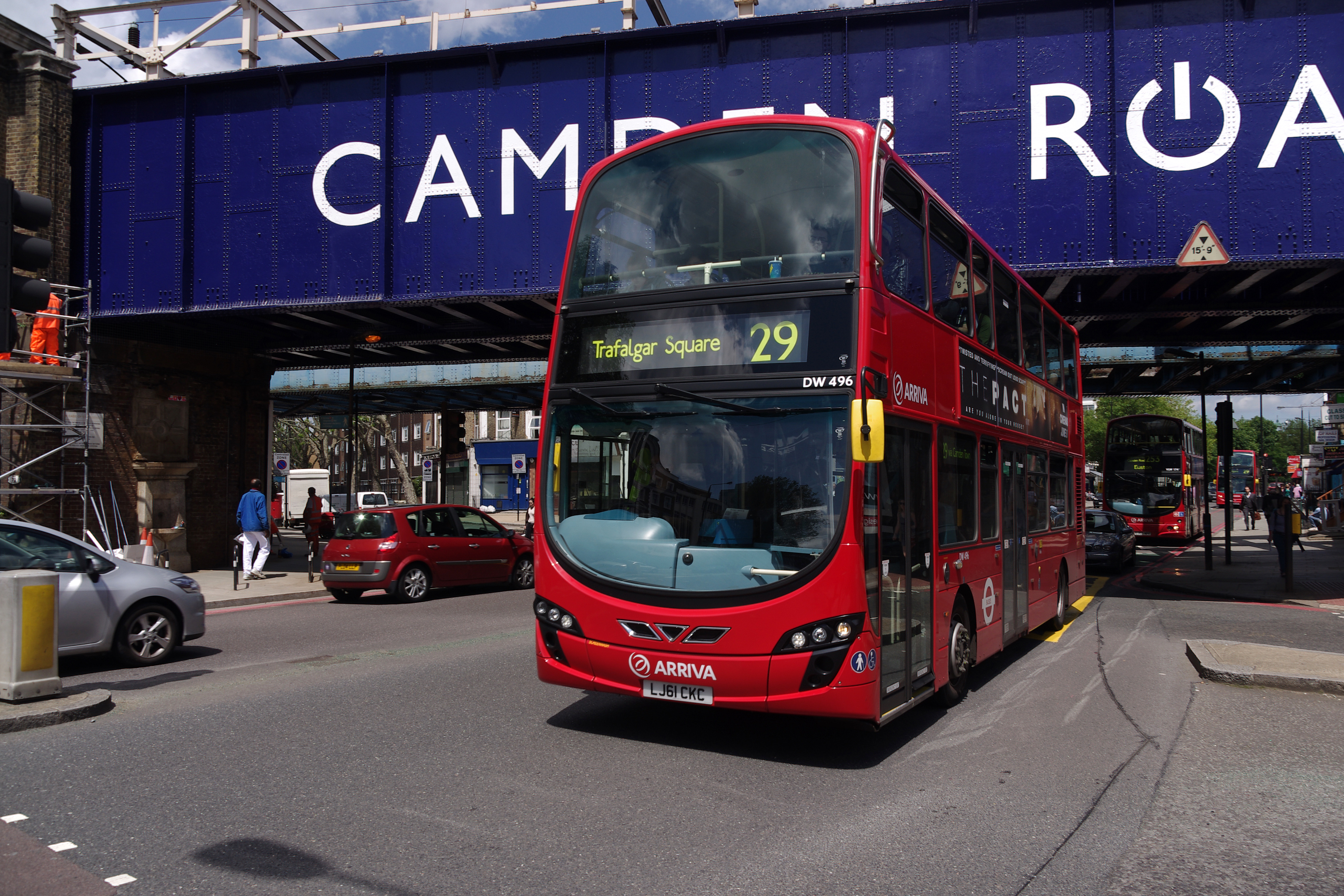 Camden Road railway station on the North London Line.